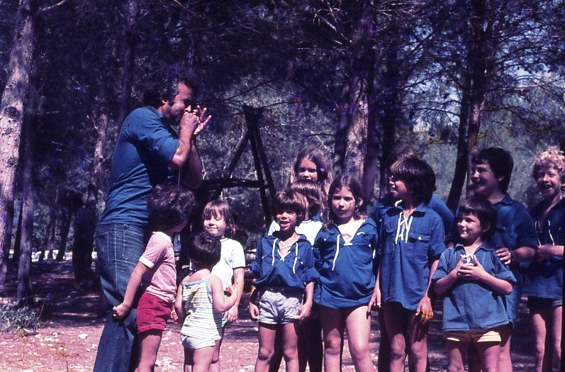 Gan-Shmuel sh2- 9, Events in Israel